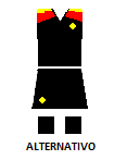 Desde 2014, se convierte en equipo alternativo Adultas CDA